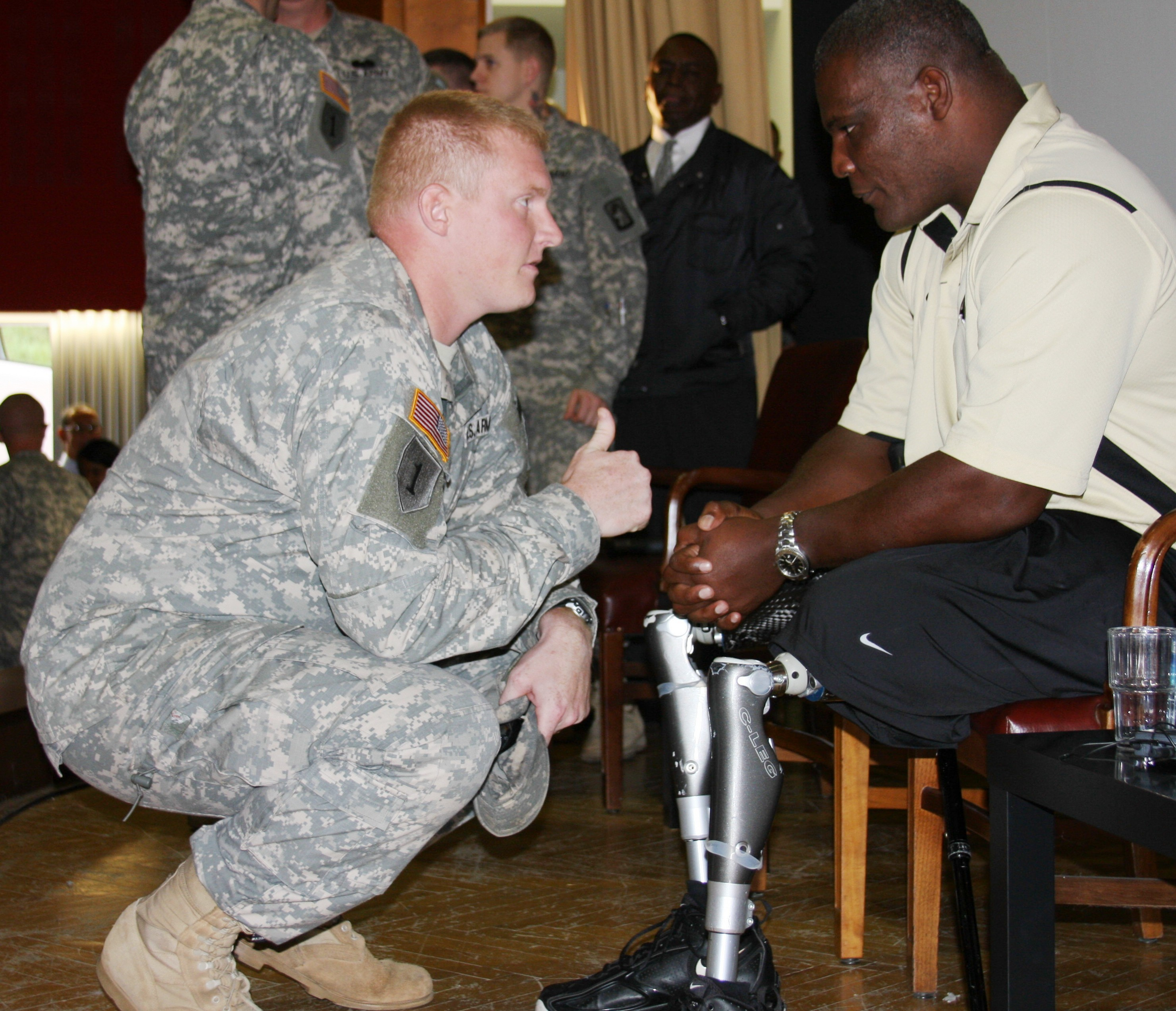 Lt. Col. Greg Gadson, who lost both legs in an IED attack in Iraq in 2007, shares a moment with fellow artilleryman, Capt. David Evetts, commander of Battery D, 1st Battalion, 77th Field Artillery Regiment, at the Ledward Theater, Sept. 29.